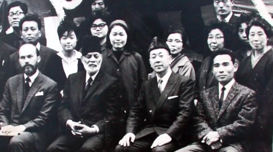 Muhammad Zafarullah Khan in Japan, among them some Japanese converts to the Ahmadiyya movement.